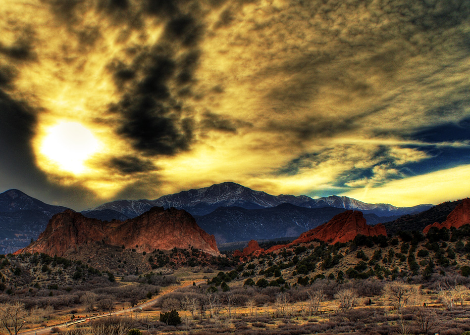 Picture of Garden of the Gods from Visitor's Center